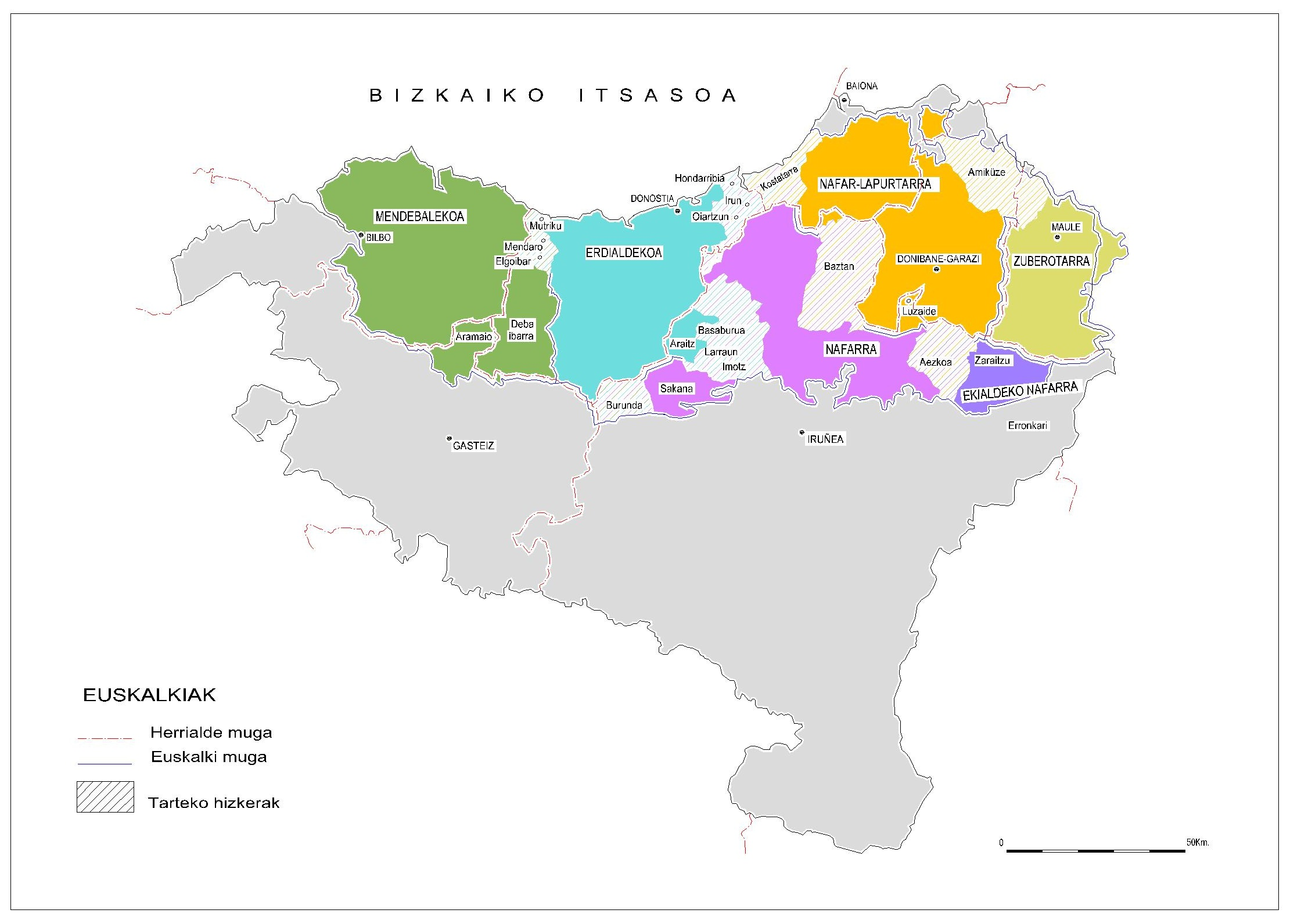 Map of basque dialects according to Koldo Zuazo (1998)